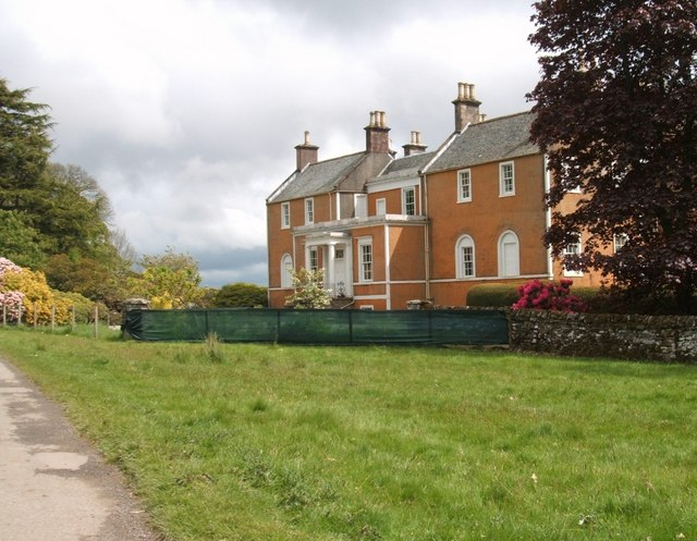 Cardross House Set in beautifully landscaped parkland.